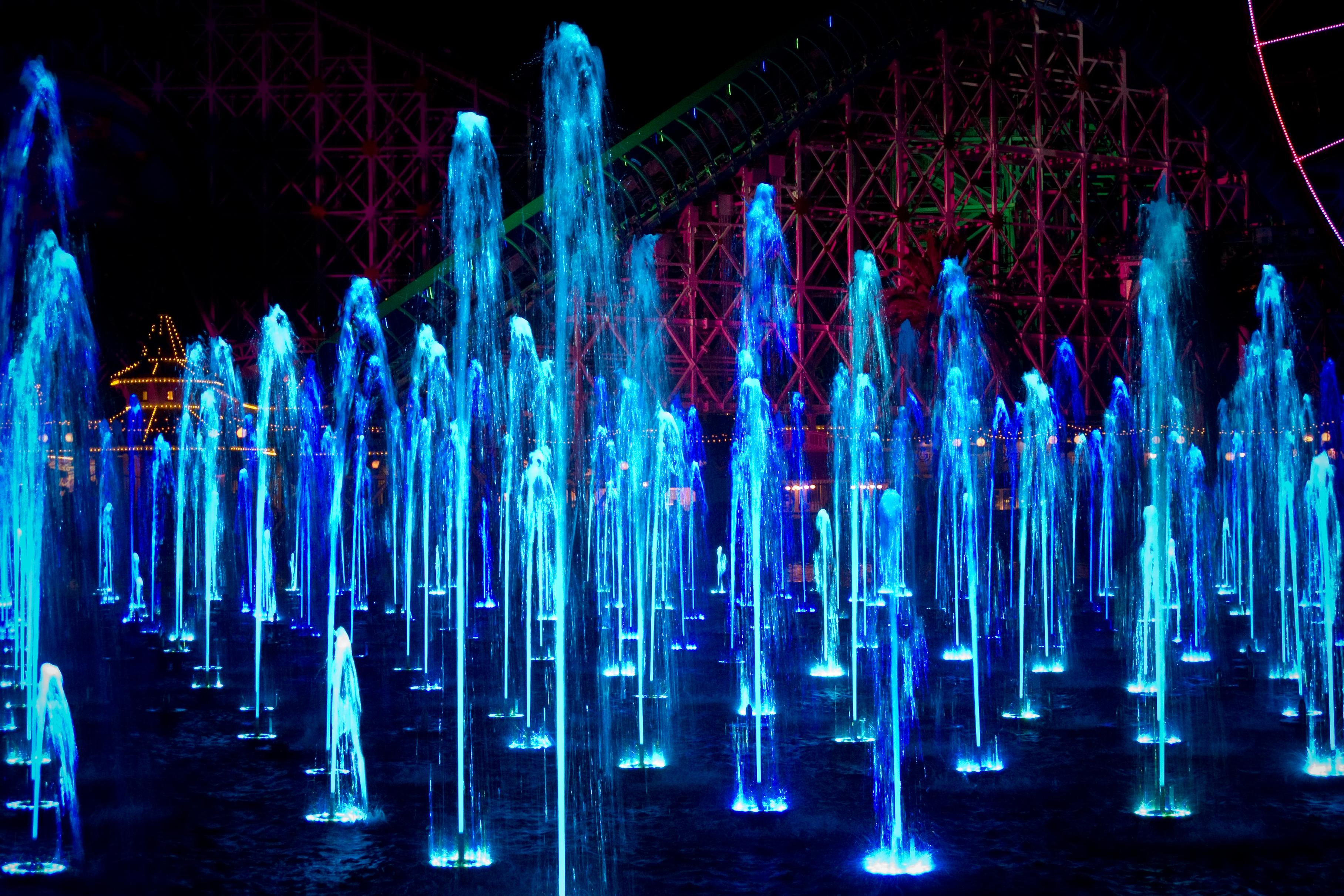 A closer look at the World of Color fountains after the show.